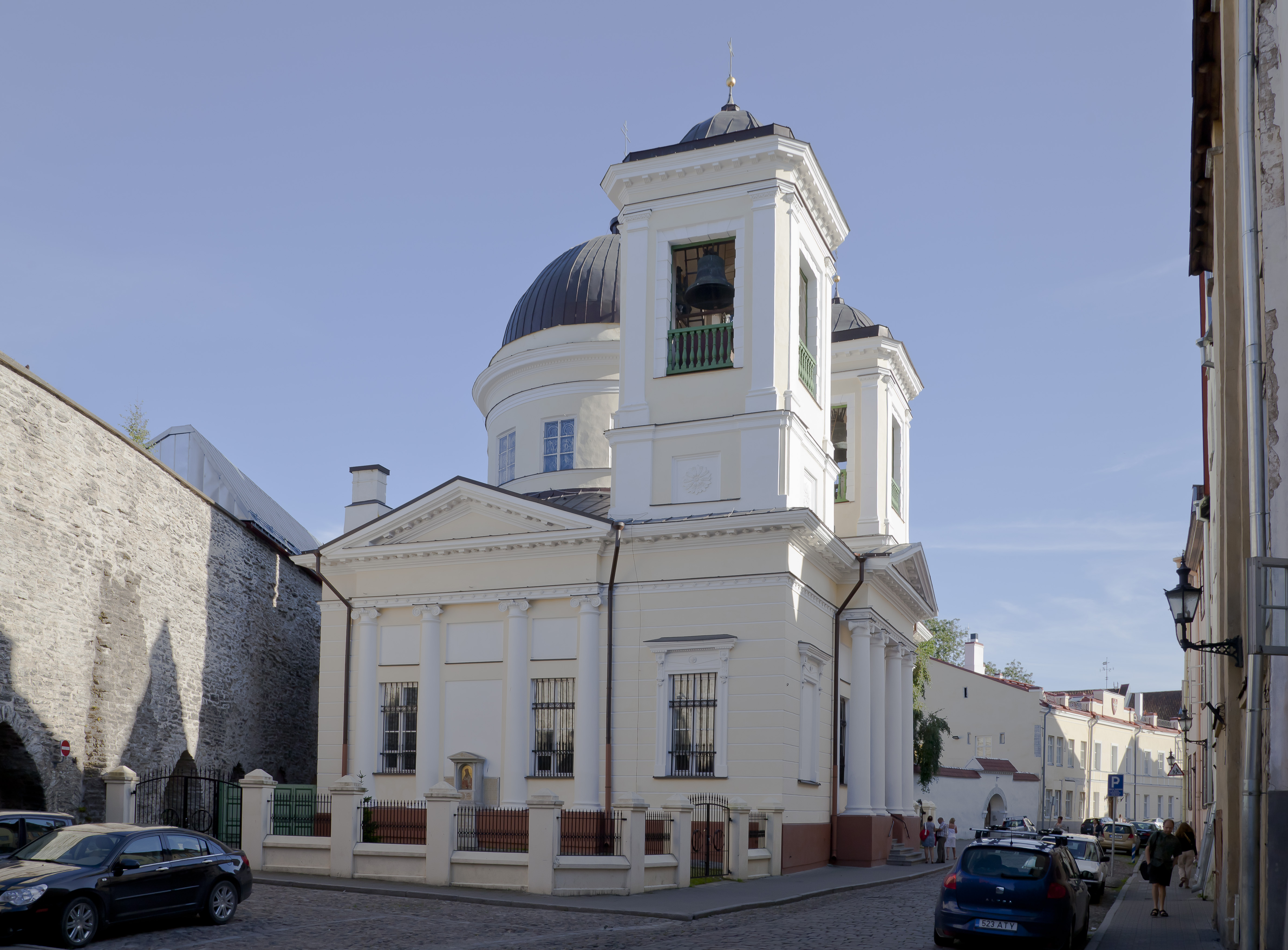 Orthodox Church of Saint Nicholas, Tallinn, Estonia